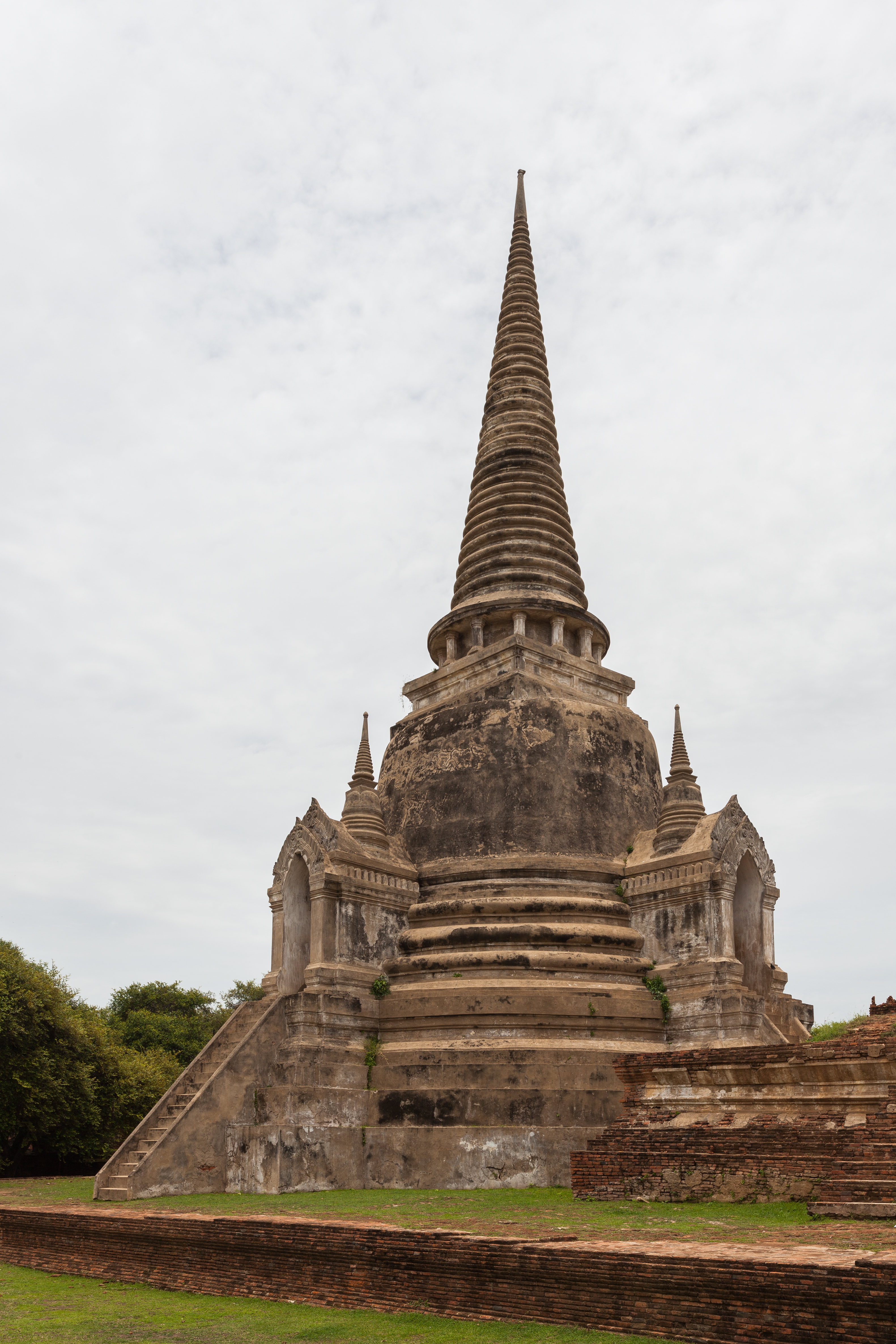 Phra Si Sanphet temple, Ayutthaya, Thailand